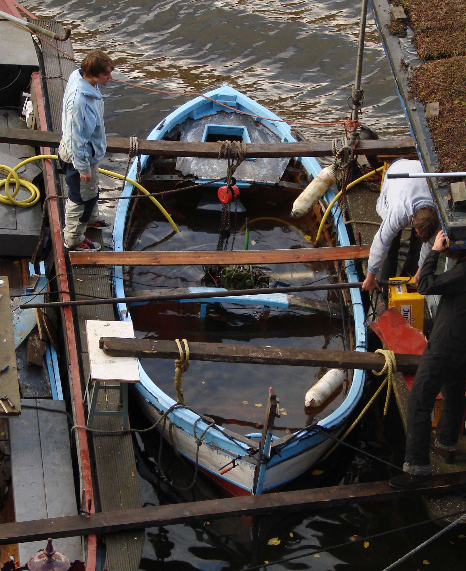 A dinghy that sunk overnight next to a house boat in an Amsterdam canal being salvaged with trolleys suspended from planks resting on the house boat and an adjoining boat.